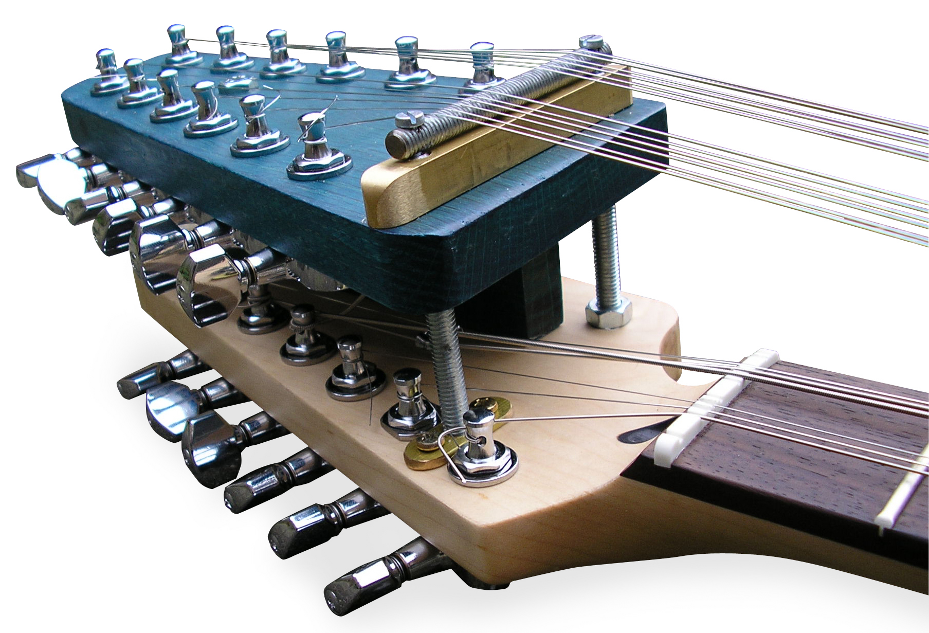 double head of moonlander guitar